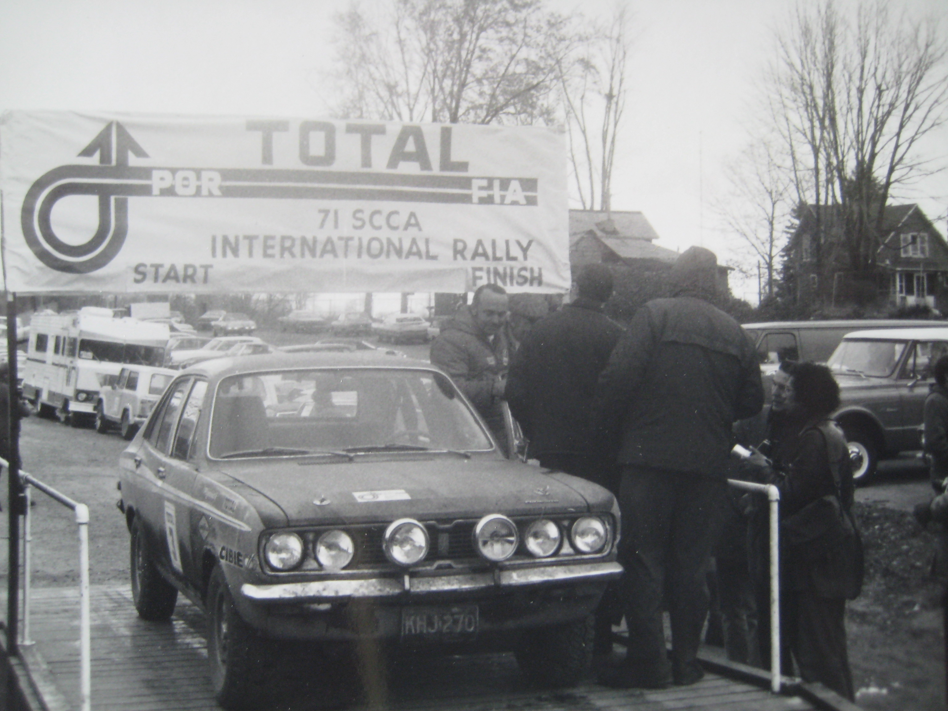 This is Scott Harvey in his Plymouth Cricket, at the 1971 Press On Regardless Rally.